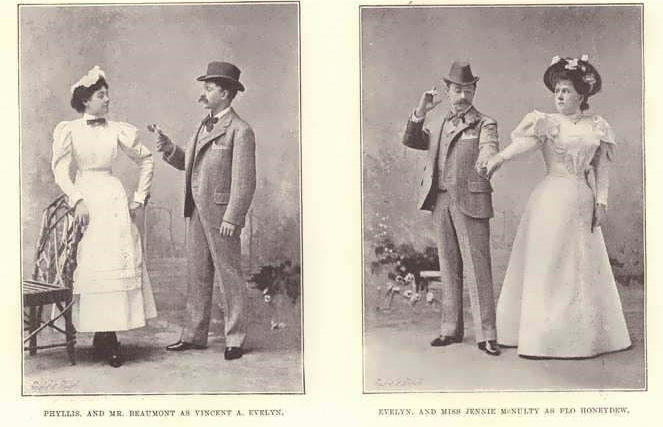 Photographs of 'The Lady Slavey' scanned from 'The Sketch' 28 November 1894 pg. 4